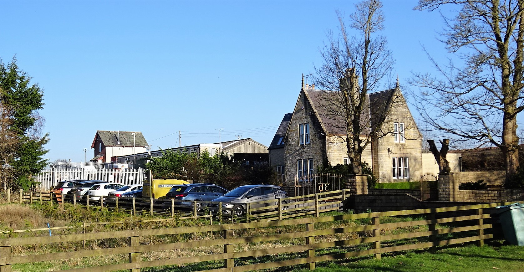 Old Cassillis railway station site. Line to Girvan & Stranraer, South Ayrshire. View from Minishant road. Closed in 1954 and the line singled.